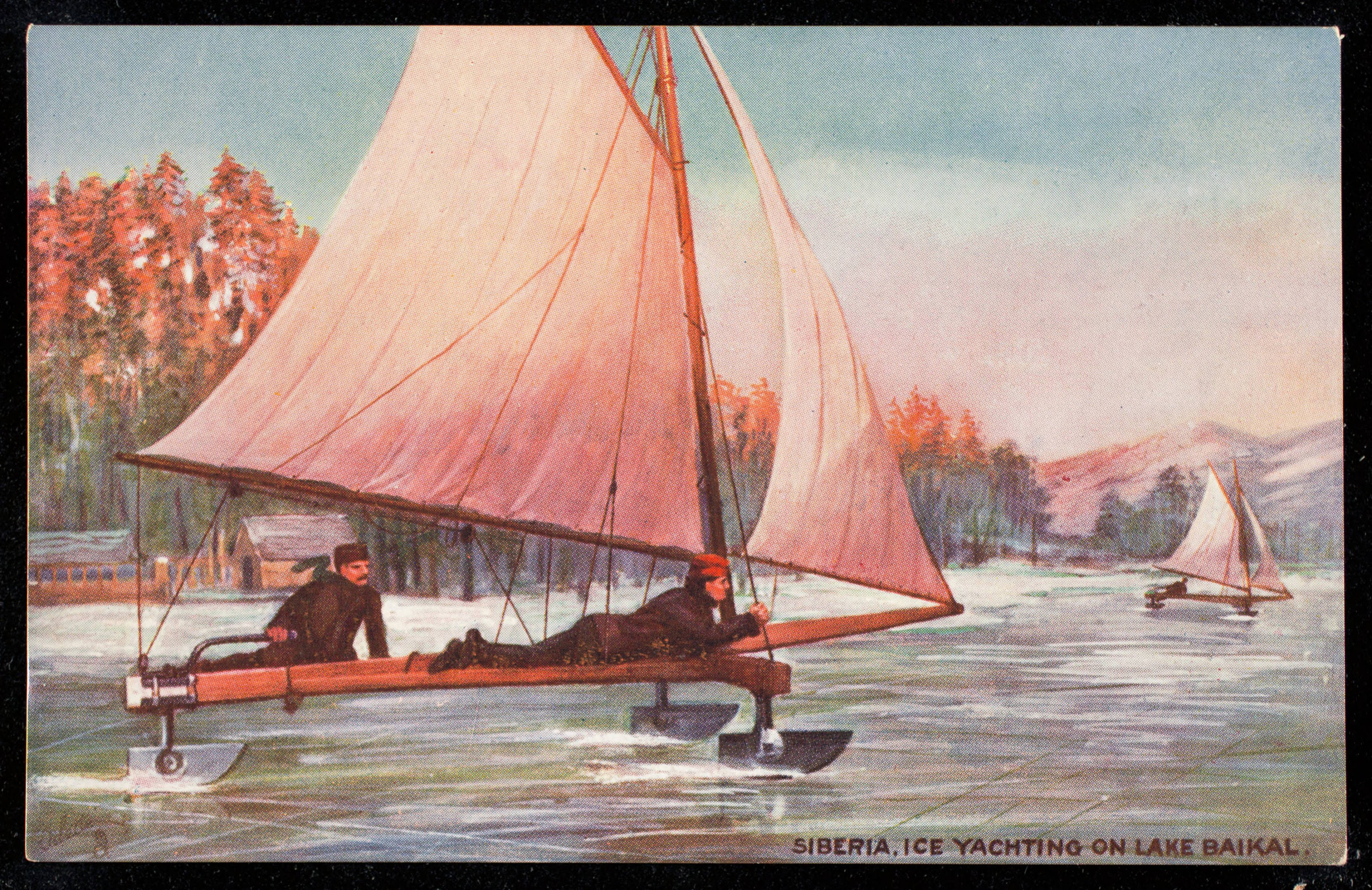 Siberia, Ice Yachting on Lake Baikal